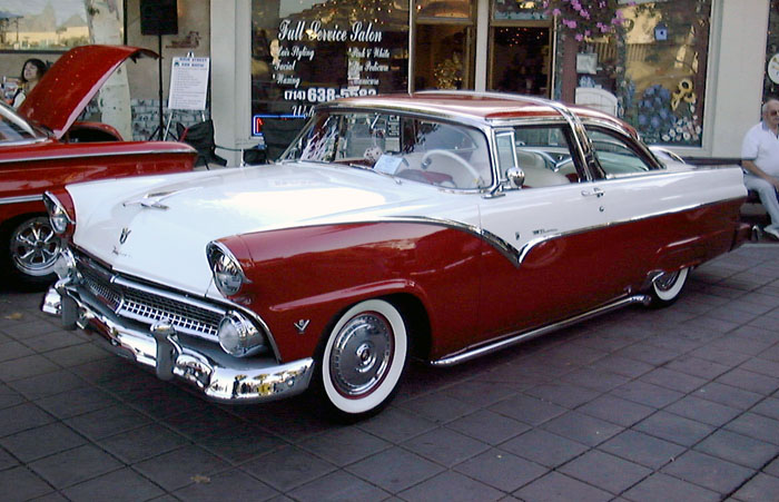 1955 Ford Crown Victoria mild custom.